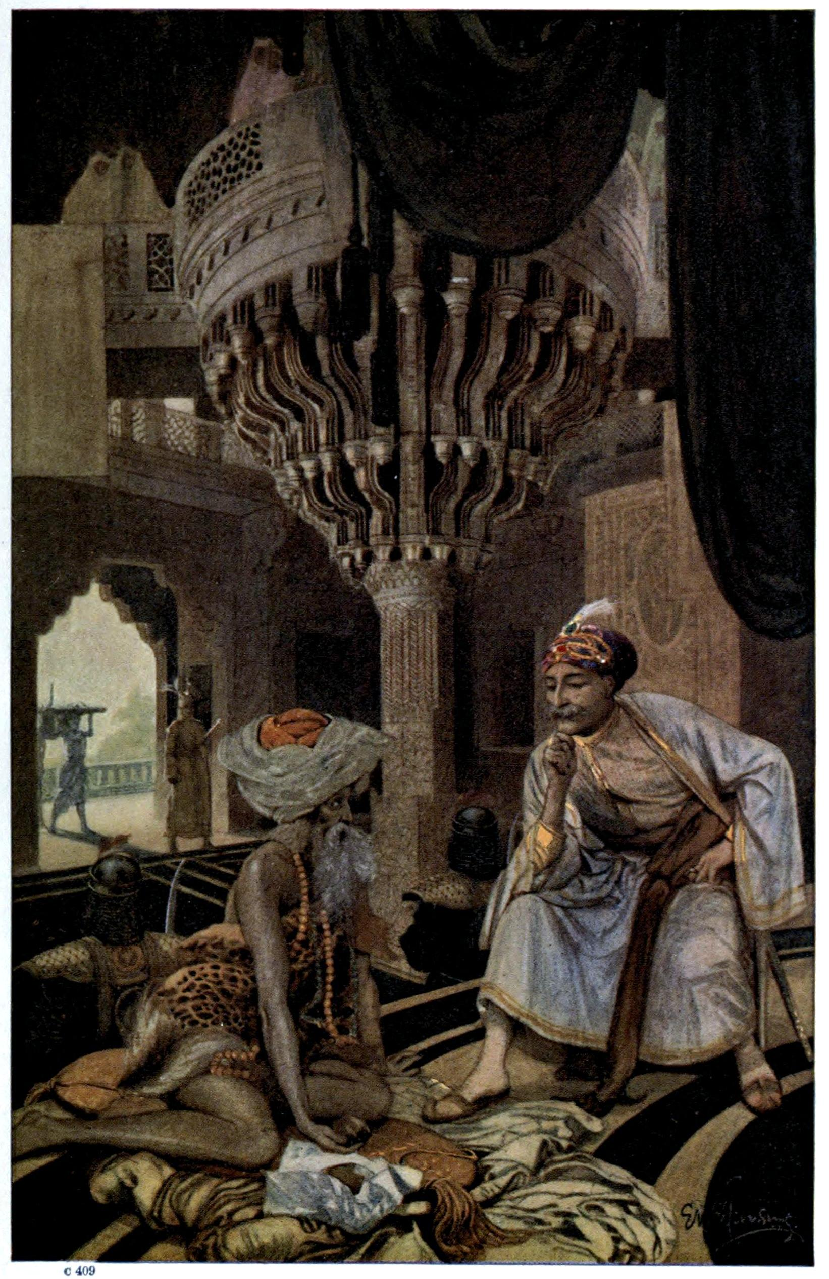 Pioneers in India by Johnston, Harry Hamilton, Sir, 1858-1927 Publication date 1913 Topics India -- Discovery and exploration, India -- History European settlements 1500-1765, India -- History British occupation, 1765-1947 Publisher London [etc.] : Blackie and son, limited Collection cdl; americana Digitizing sponsor MSN Contributor University of California Libraries Language English Bookplateleaf 4 Call number SRLF:LAGE-230522 Camera 5D Collection-library SRLF Copyright-evidence Evidence reported by alyson-wieczorek for item pioneersinindia00johniala on June 18, 2007: no visible notice of copyright; stated date is 1913. Copyright-evidence-date 20070618175118 Copyright-evidence-operator alyson-wieczorek Copyright-region US Identifier pioneersinindia00johniala Identifier-ark ark:/13960/t8bg2ks7d Identifier-bib LAGE-230522 Lcamid 1020705142 Openlibrary_edition OL7099511M Openlibrary_work OL1094605W Pages 372 Full catalog record MARCXML